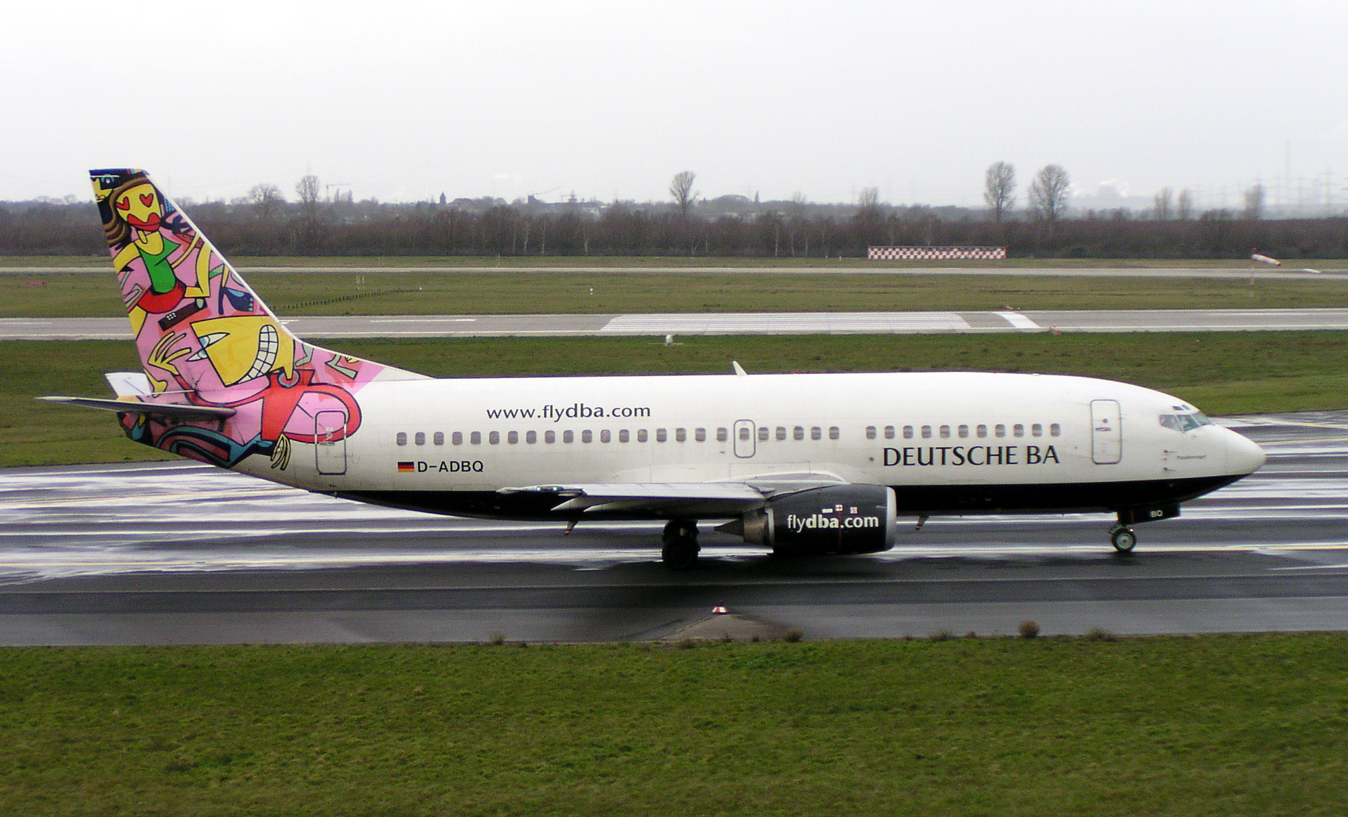 Description: dba Boeing 737-300 D-ADBQ in Düsseldorf 14. December 2003. Since April 2004 operated by Helios Airways, Cyprus; crashed 14. August 2005 near Athens, 121 fatalities. Photographer: Arcturus Licence: GFDL + cc-by-sa-2.0-de